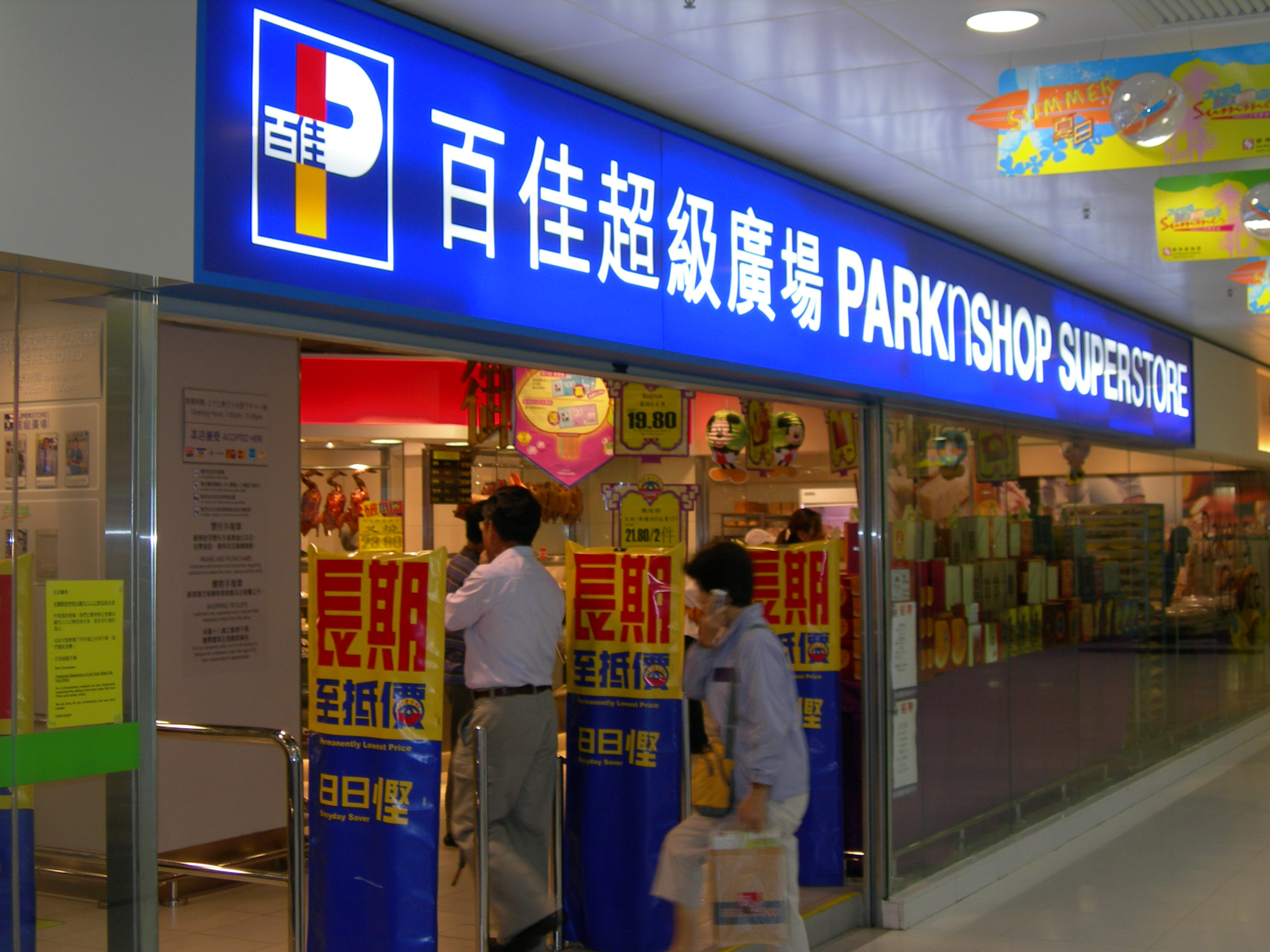 Park'n'Shop in Tai Po Mega Mall, as on August 26, 2005.